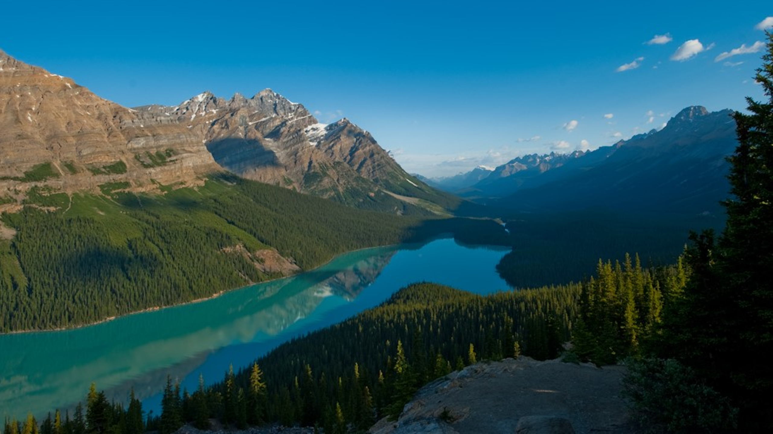 Peyto Lake from Peyto Lake Lookout; Cauldron Peak at left, Mt. Patterson left of centre. Taken with a wide lens, this 16x9 image can be used as Apple wallpaper or PC background.